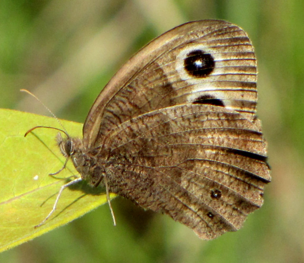 Common Wood-nymph (Cercyonis pegala), Ottawa, Ontario, Canada